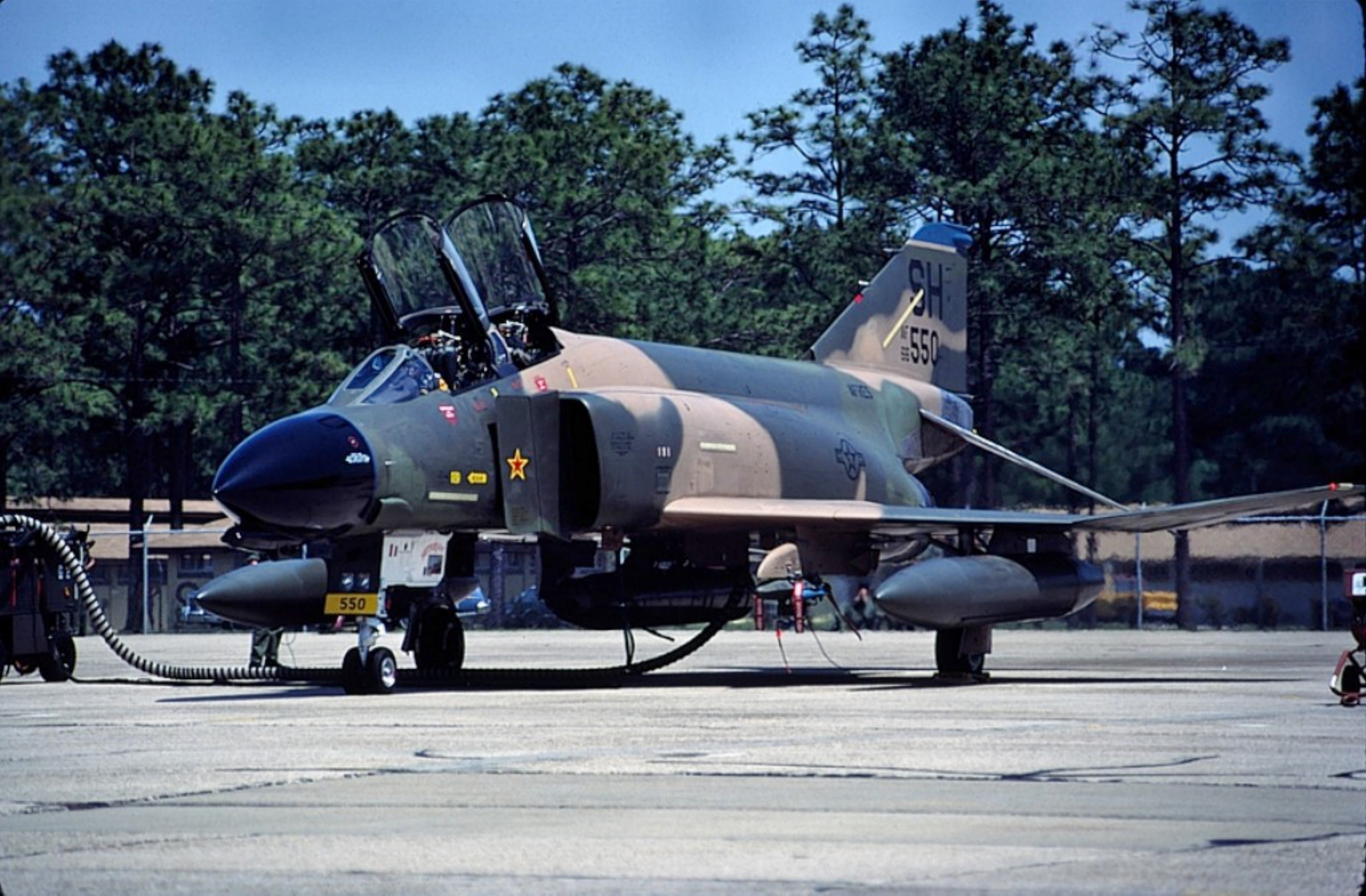 An F-4D Phantom II assigned to the 507th Tactical Fighter Wing, Air Force Reserves, Tinker Air Force Base, Oklahoma, shown on the flight line during a training deployment during the 1980s. This jet wears a Vietnam-era MiG-kill marking in the form of a red and yellow star on the intake splitter-plate.